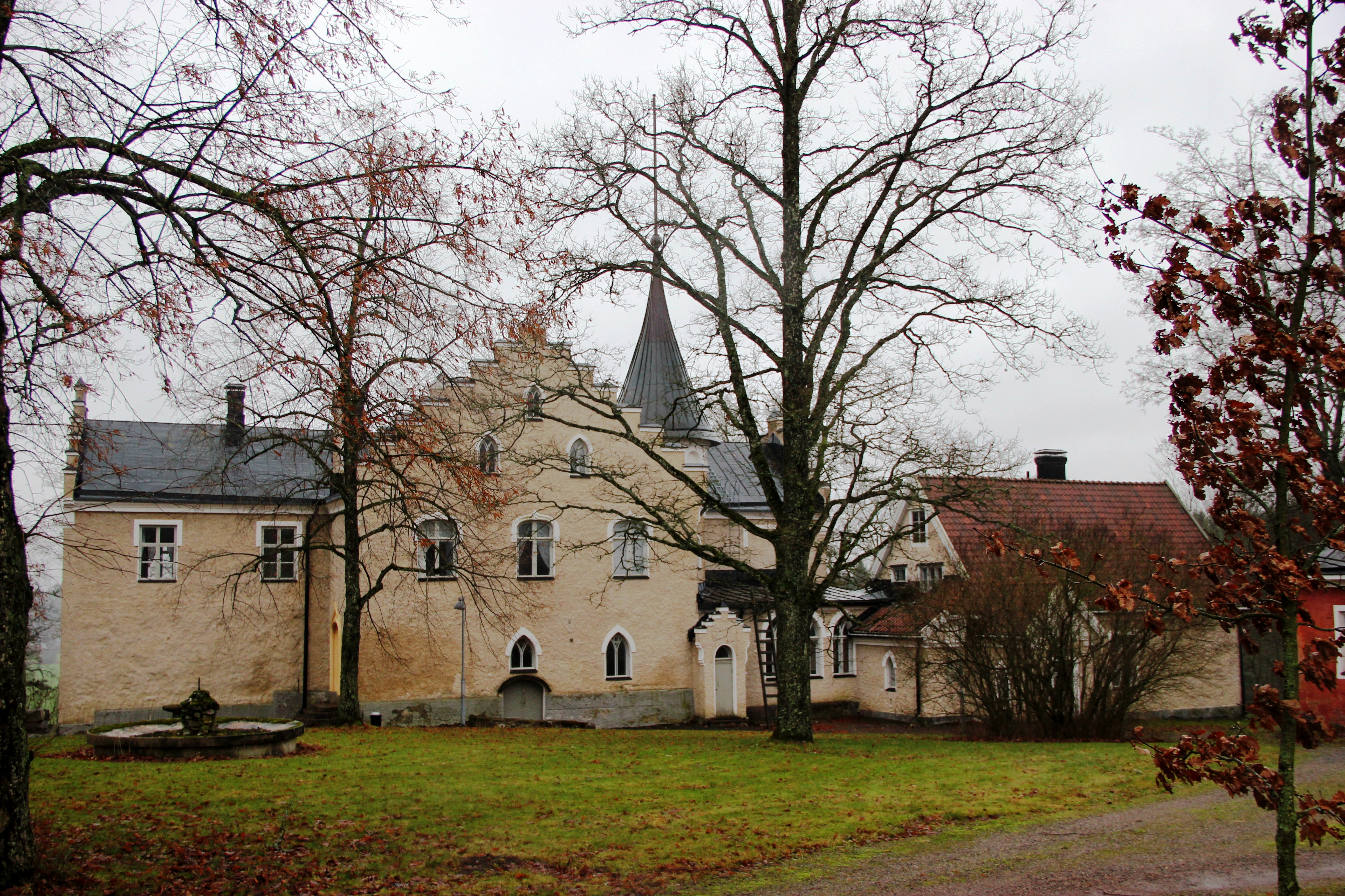 Main building